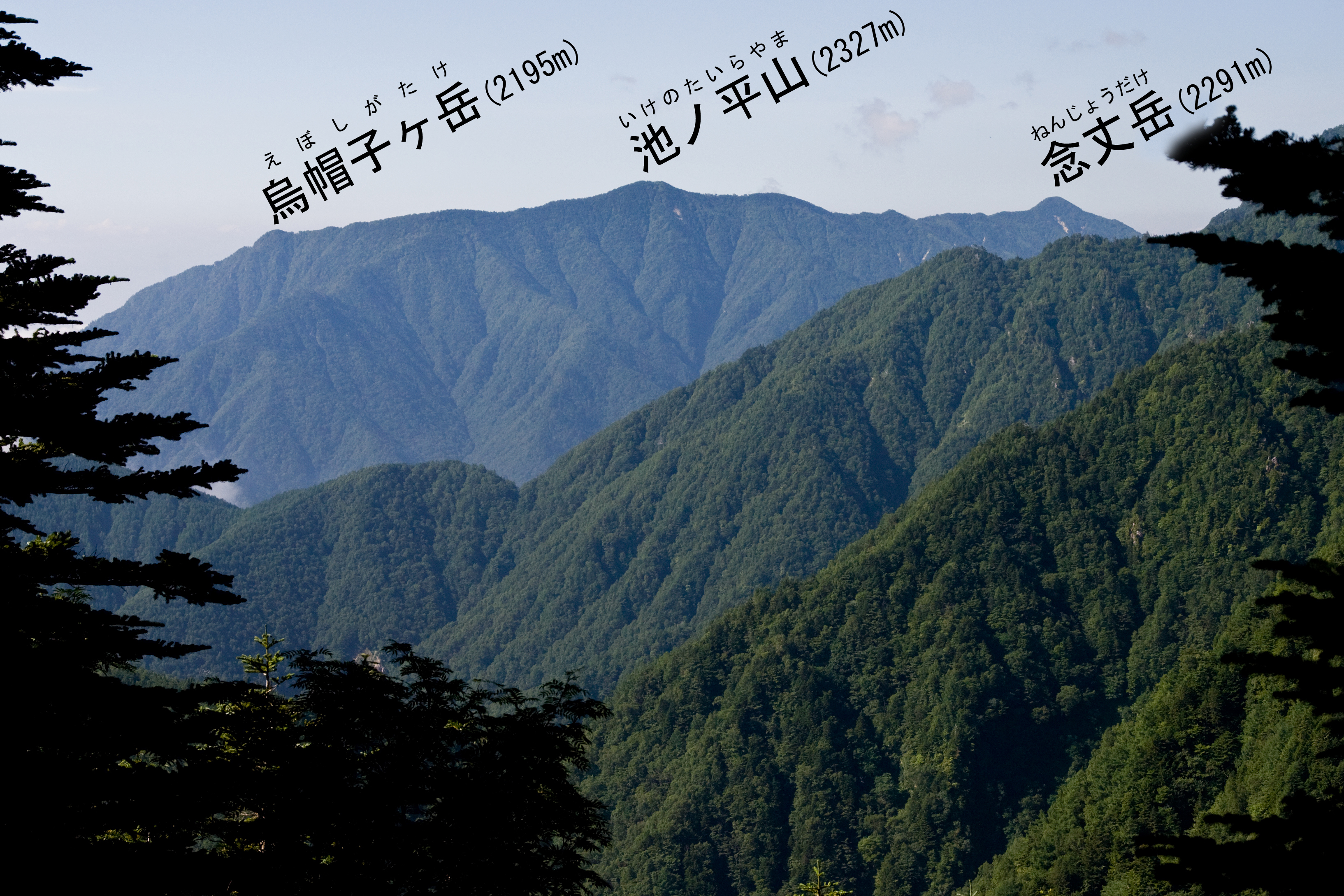 Mounts Eboshi (Eboshi-ga-take), Ikenotaira (Ikenotaira-yama) and Nenjo (Nenjo-dake) as seen from the Ikeyama Ridge in the Kiso Mountains, Japan